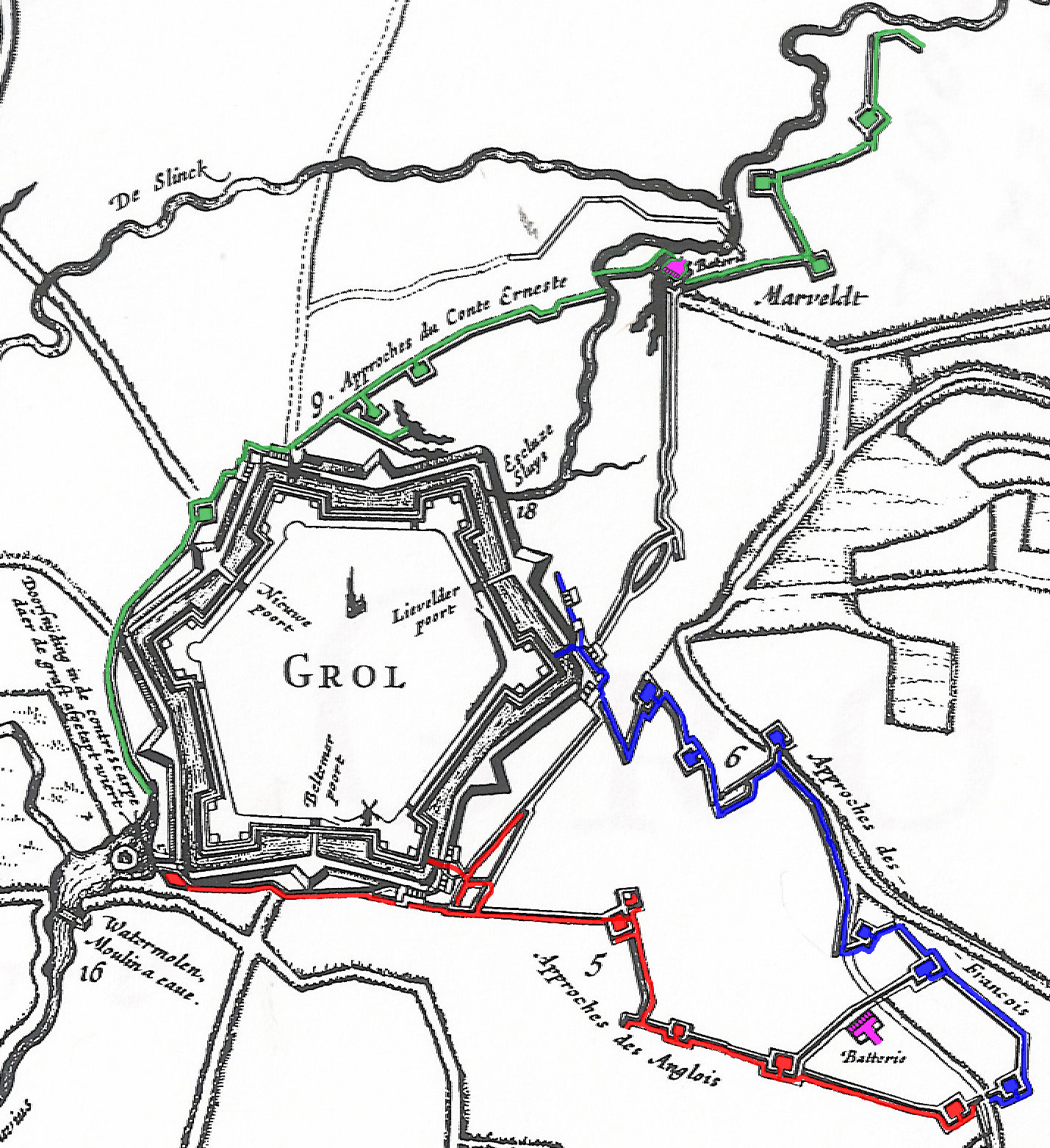 The three 'approches', or zigzagging trenches, highlighted. Red=English approche, Blue=French approche, Green=Approche of Ernst-Casimir. The purple elements are gun batteries, each equipped with six guns.